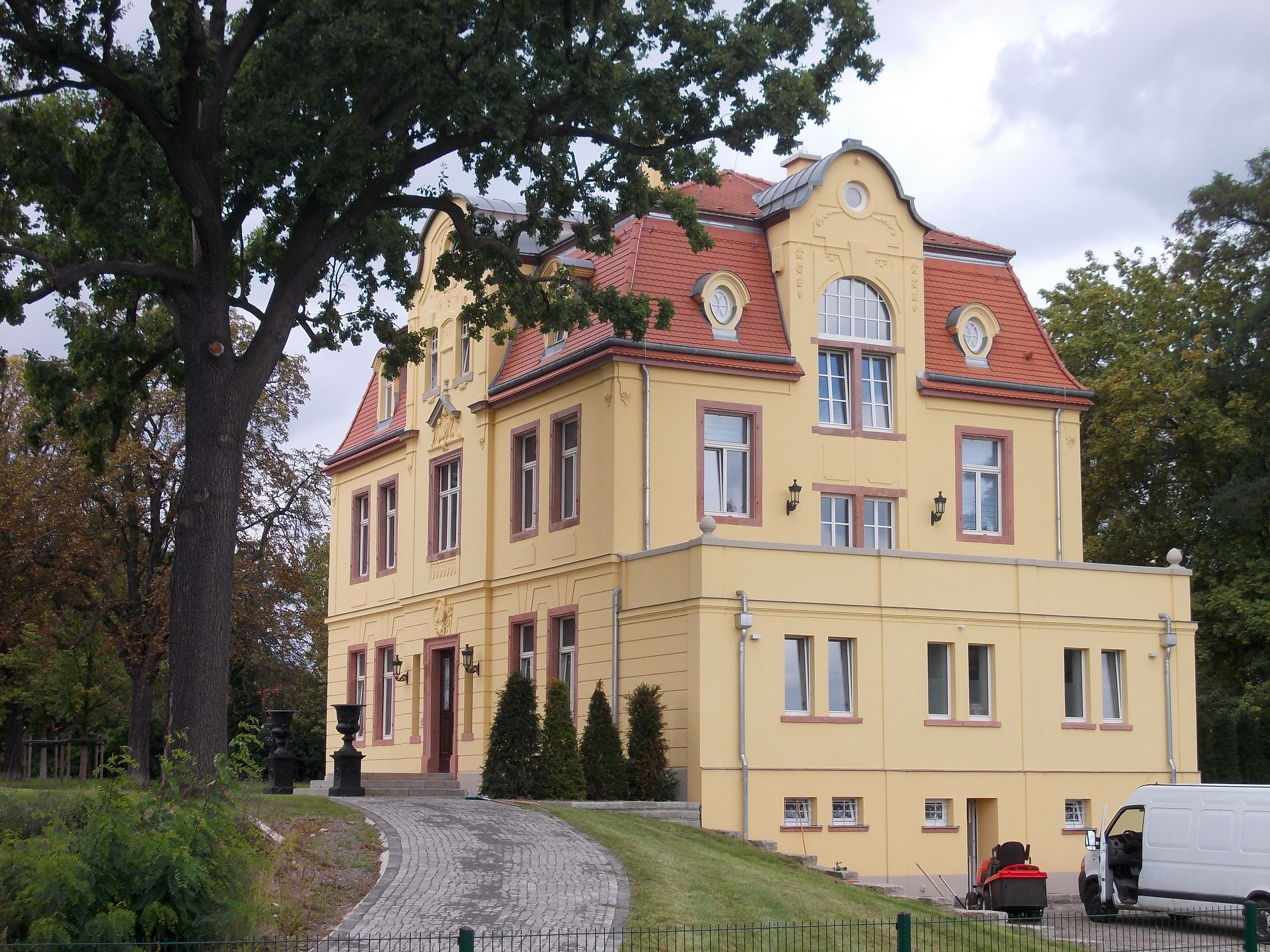 Probstdeuben manor house in Großdeuben (Böhlen, Leipzig district, Saxony)